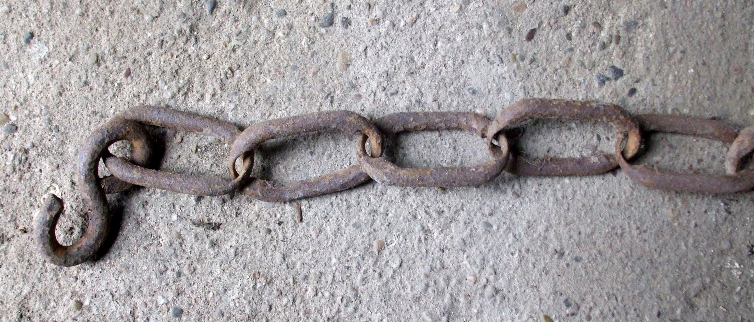 old used chain